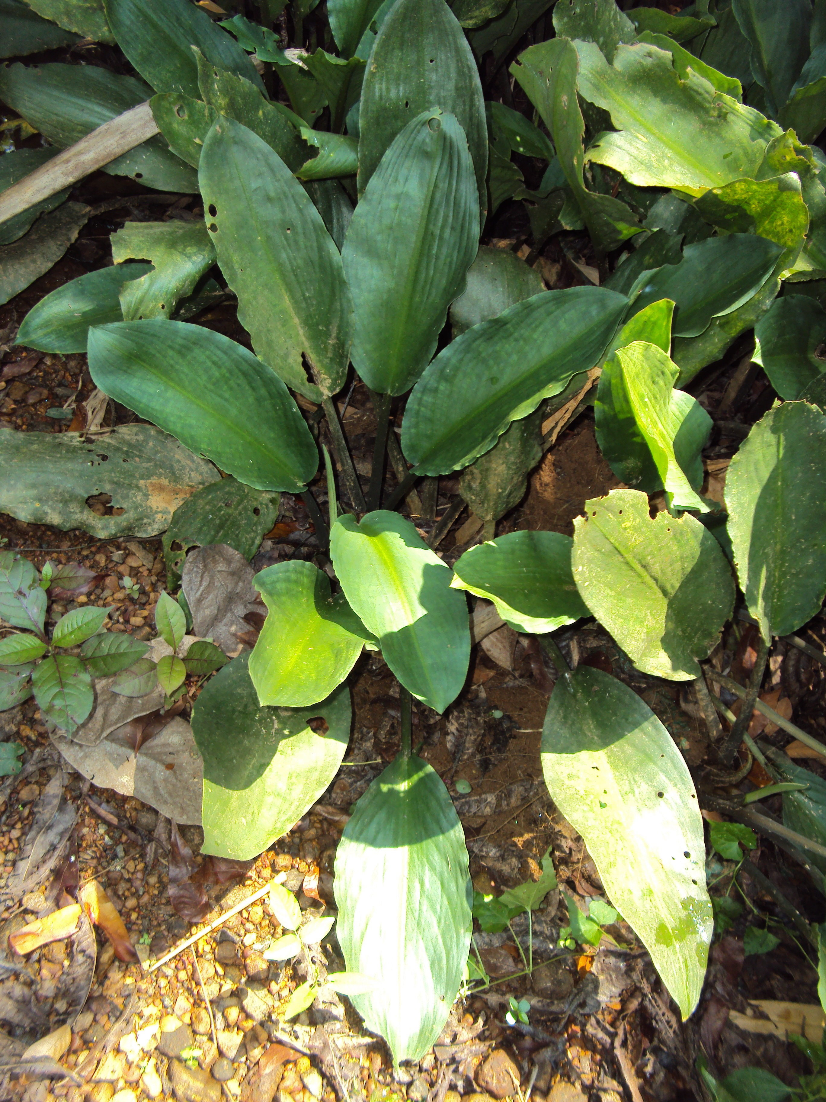 Lagenandra toxicaria